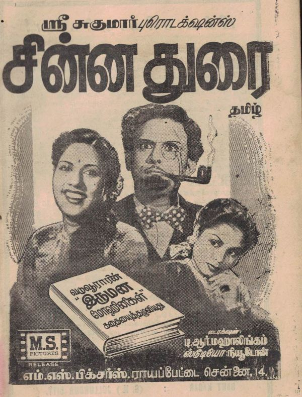 Poster for the 1952 South Indian Tamil film Chinna Durai